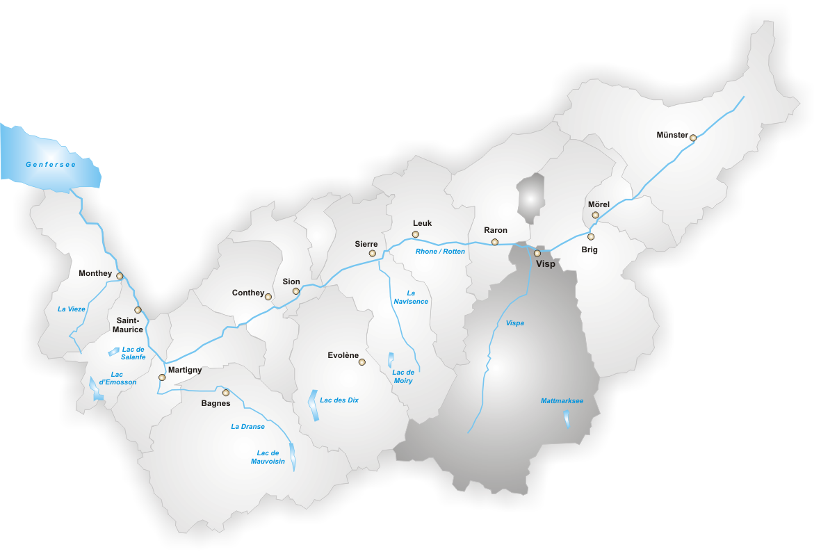 District Visp